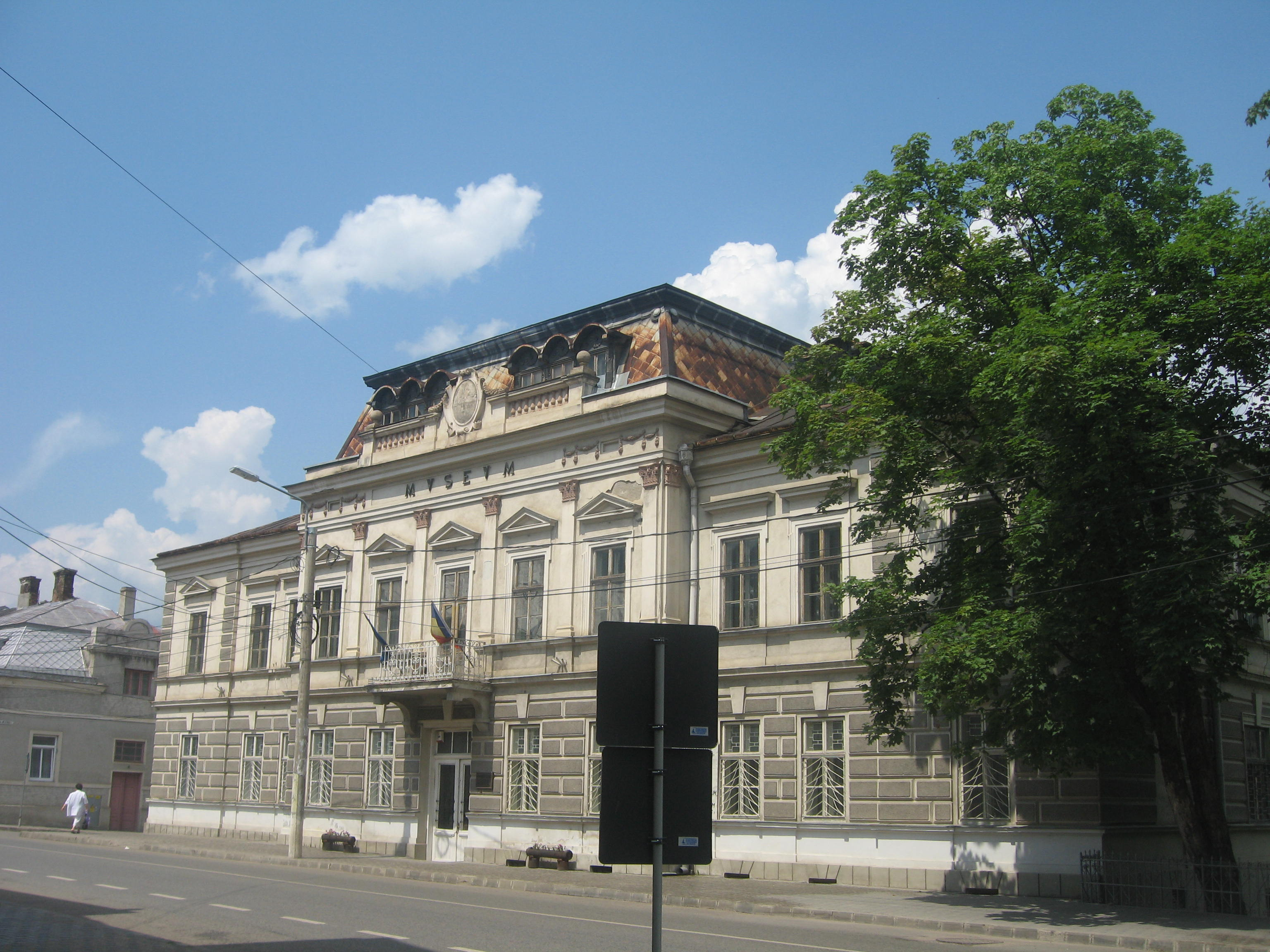 The Wood Museum in Câmpulung Moldovenesc, Romania